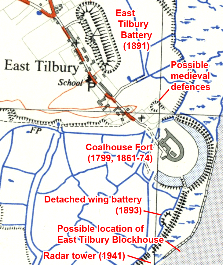 Annotated map of the area around Coalhouse Fort. Edited extract from Ordnance Survey 1:25,000 Series, 1958